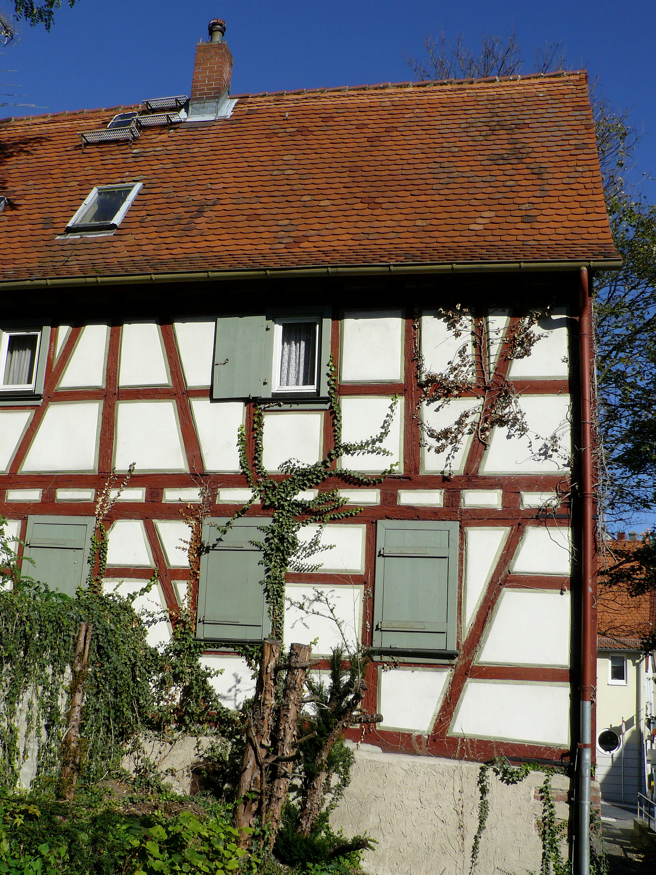 Old Lutheran School of Seckbach (1709), today a private home in the borrough of Frankfurt, Hesse, Germany